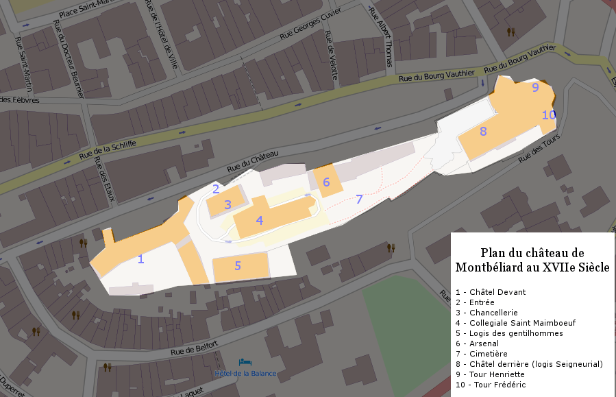 Castle Montbéliard map under current basemap